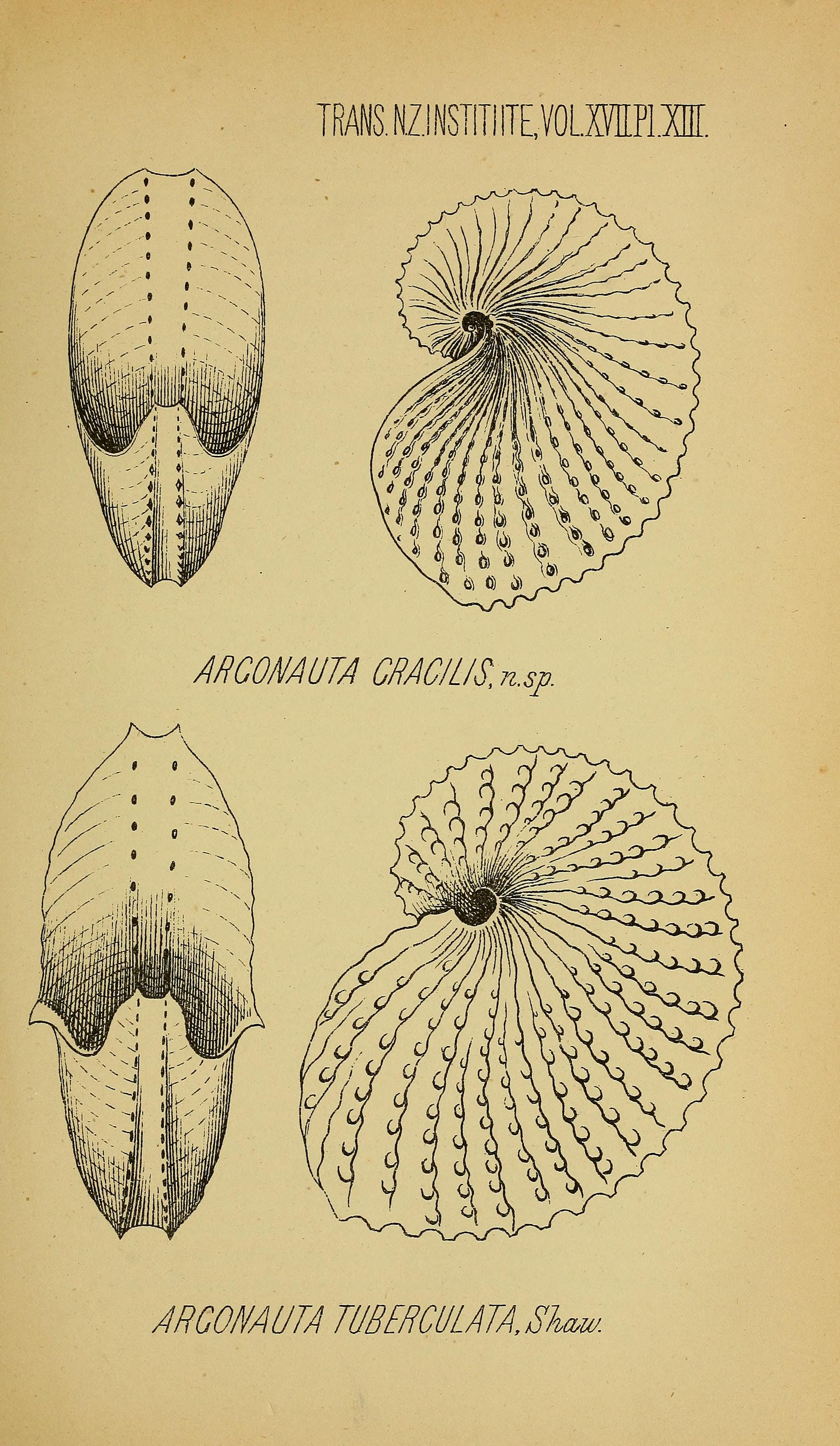 Comparison of the eggcases of Argonauta tuberculata and Argonauta gracilis, from the describing paper of the latter. Both taxa are now considered synonyms of Argonauta nodosa.